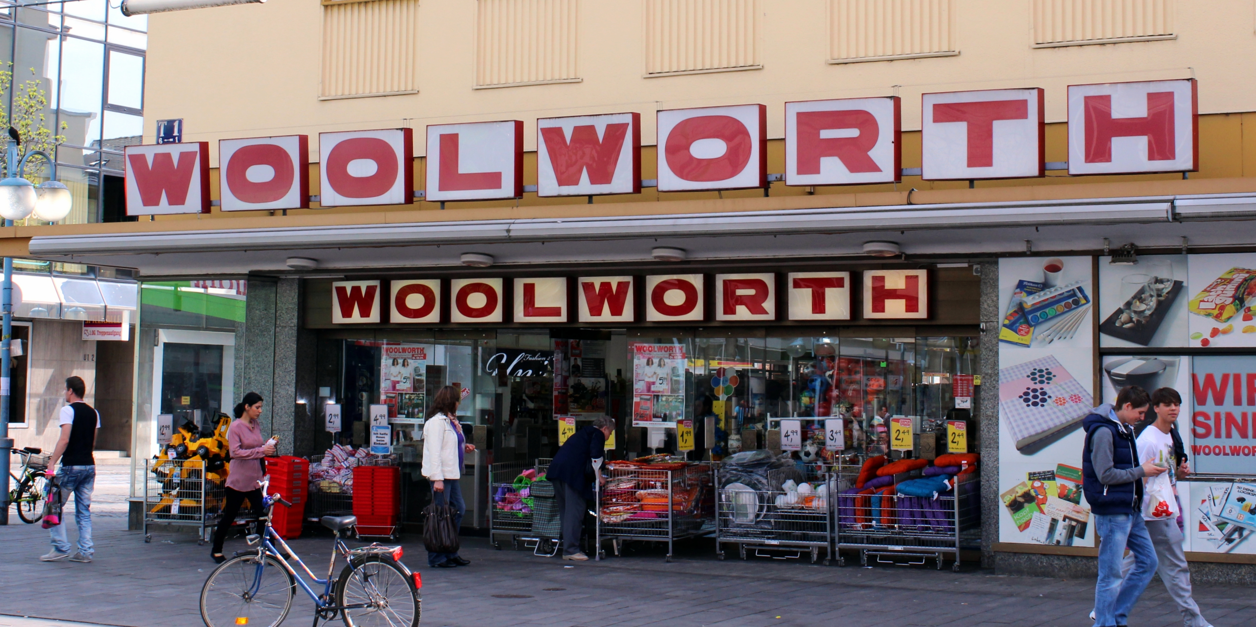 Mannheim Woolworth